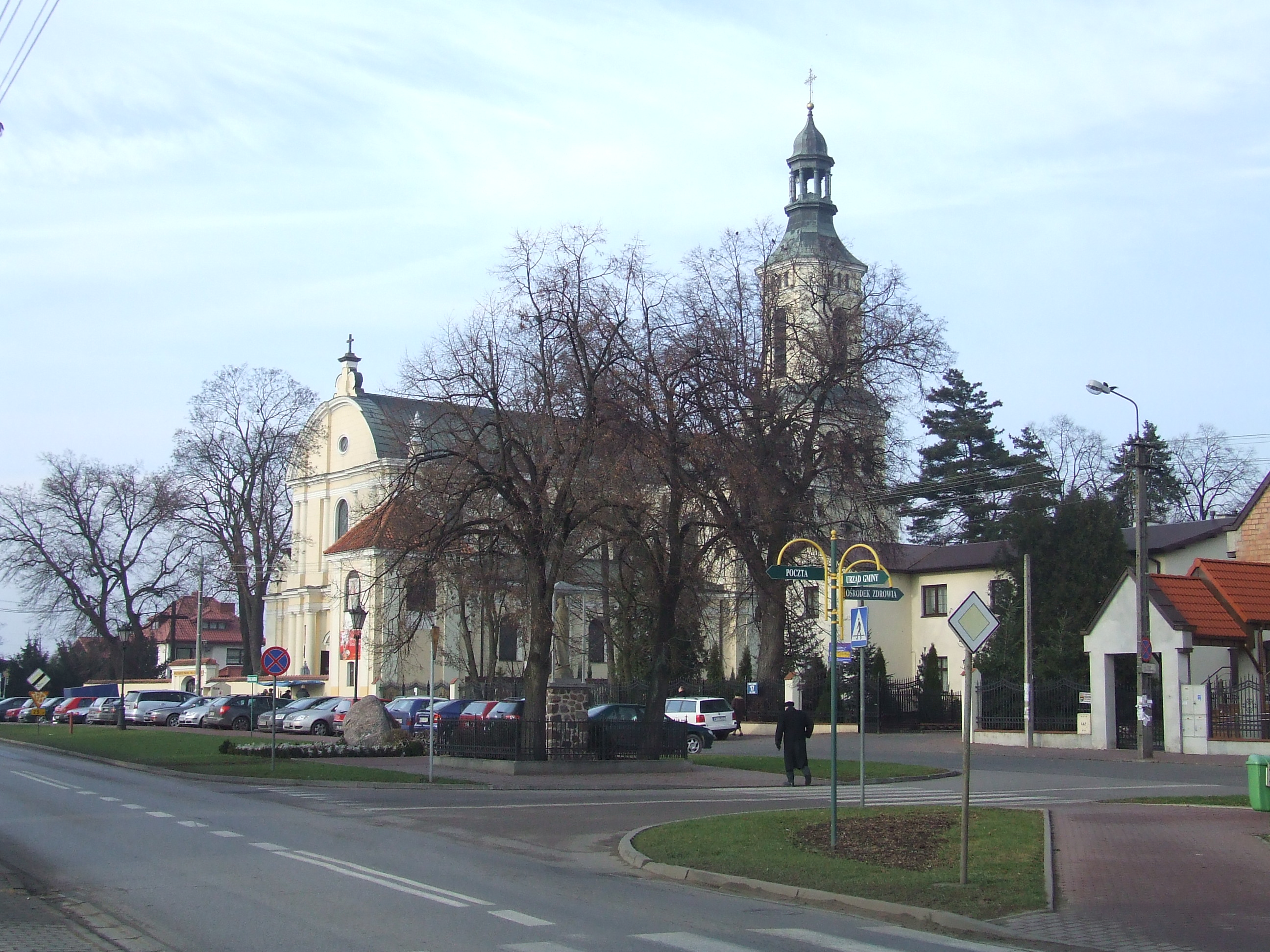 church in Stare Babice, Poland